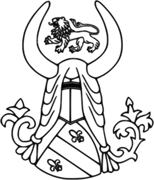 Coat of Arms of Serbian Despot George I as a vassal of the Hungarian King. Taken from the Despot's seal.